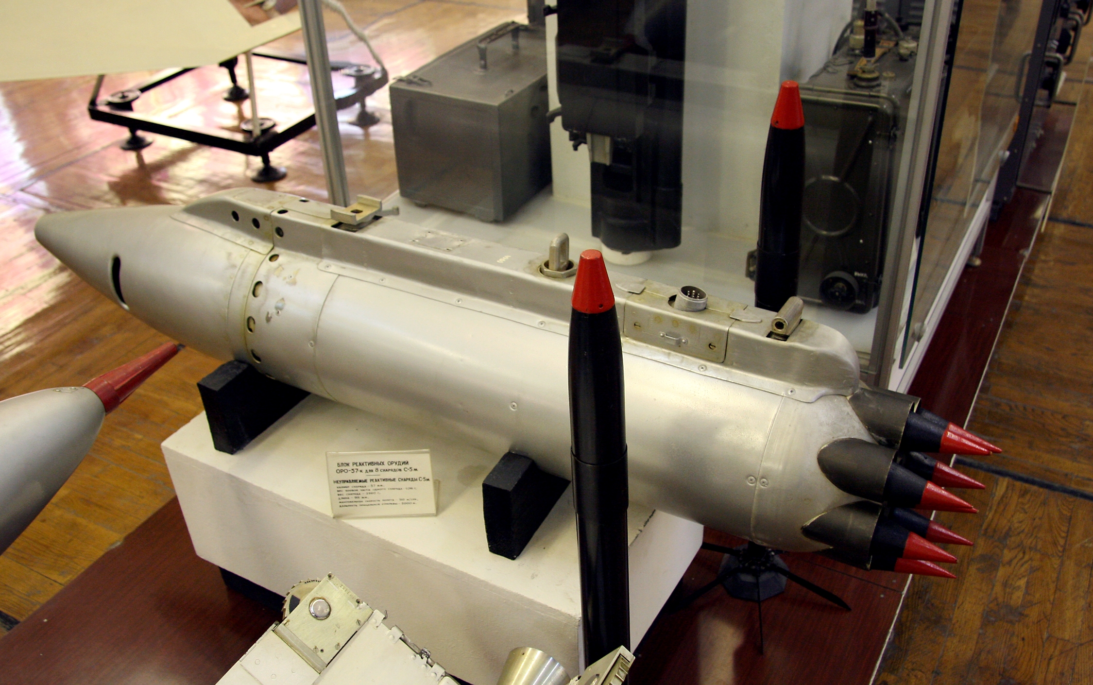 Air Defense History Museum in Zarya in Moscow Oblast.